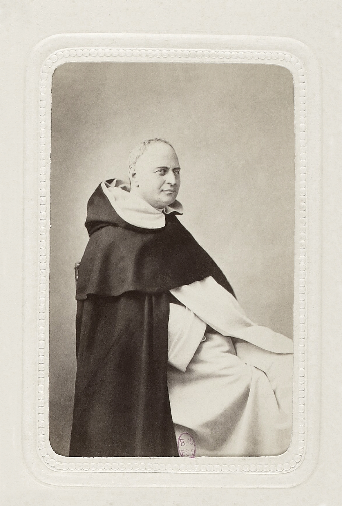 Lacordaire (1802-1861), french dominican, politic activist, journalist, writer and preacher.